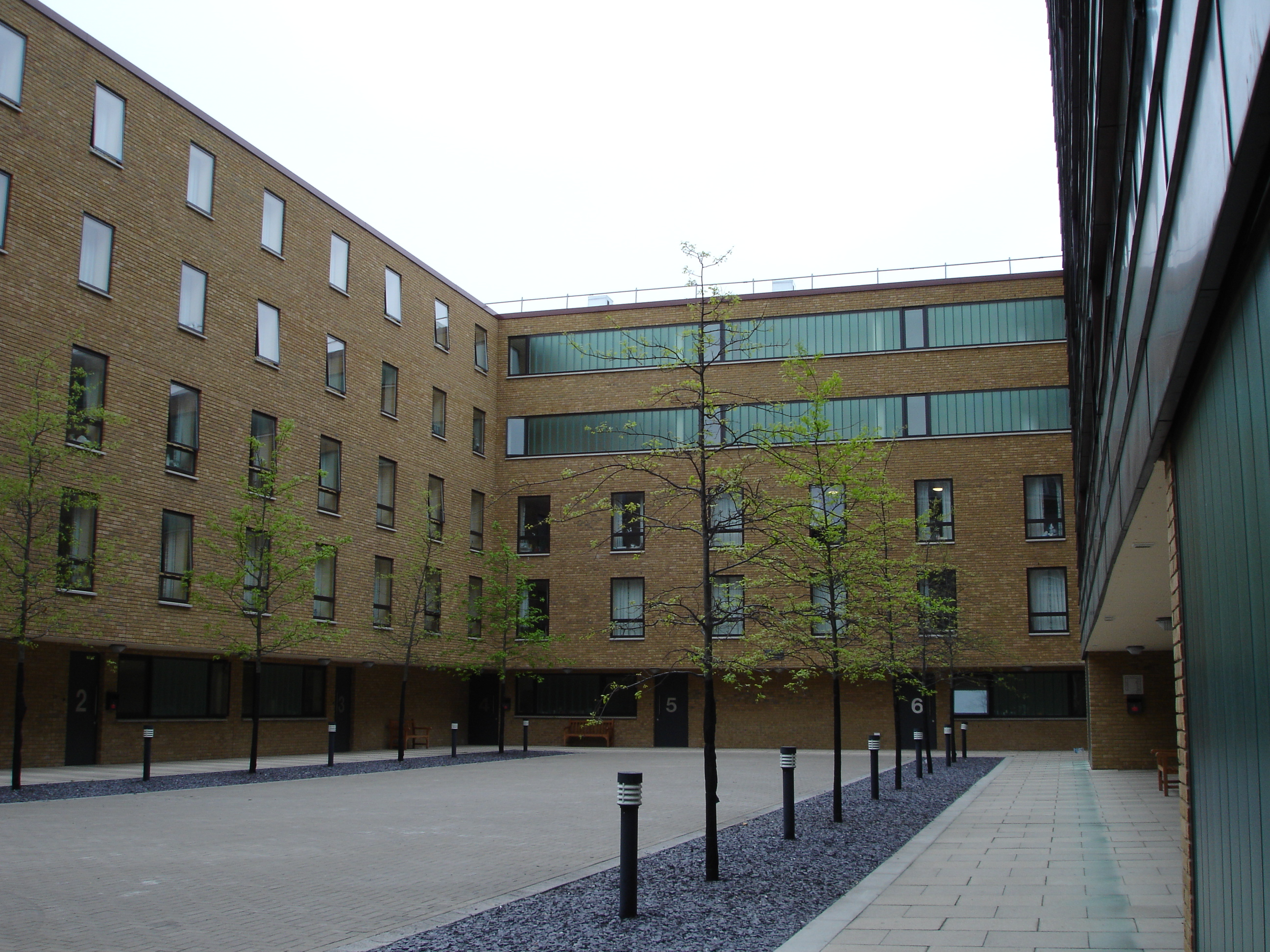 Frances Gardner House of University College London.